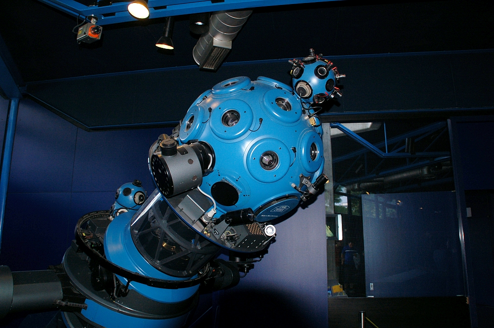 Projector Zeiss Modell VI, 1968, Stuttgart, Germany